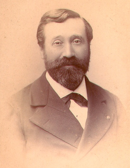 Paul Doumet-Adanson (Nadar)